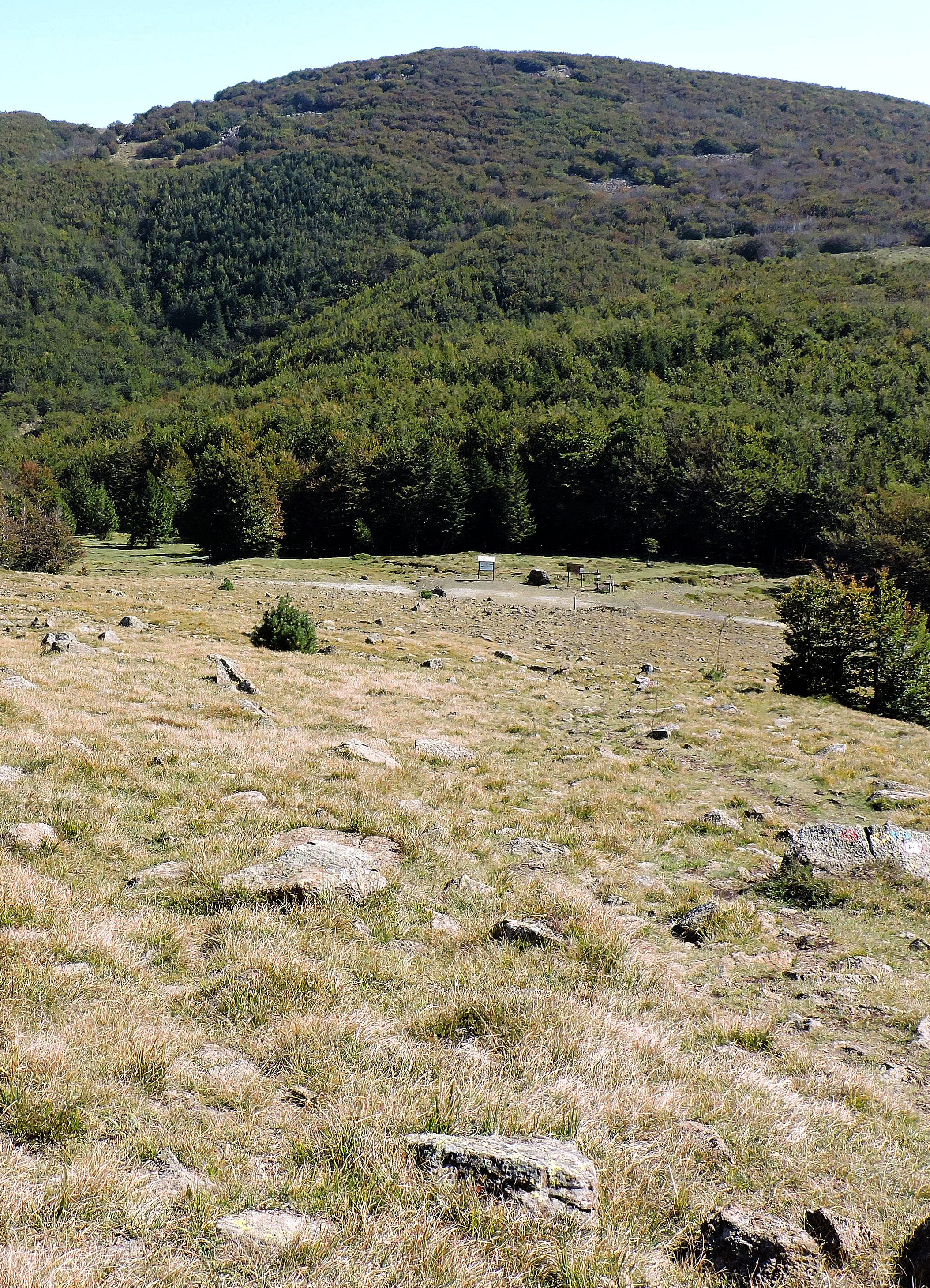 Passo della Spingarda from Monte Aiona slopes, in the background the Monte Nero (Ligurian Apennines)